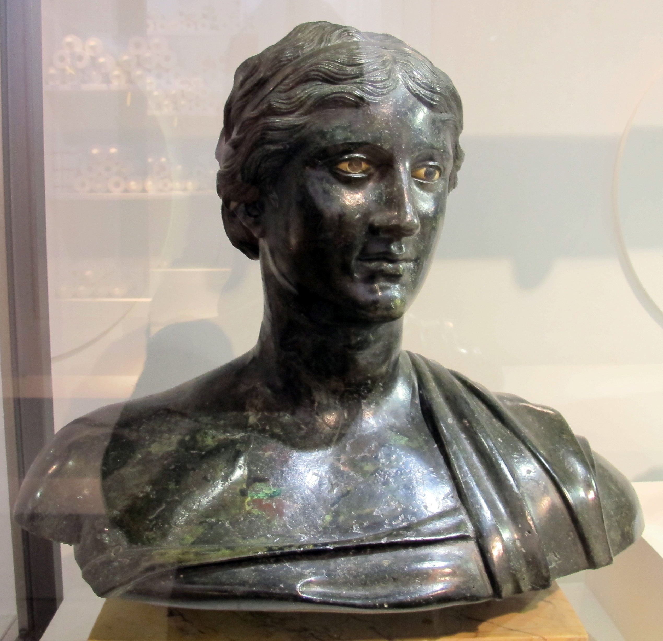 Ancient Libraries Exhibition (Colosseum, 2014)